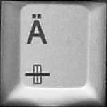 Key at position C11 (according to the ISO/IEC 9995-1 reference grid) of a German computer keyboard showing a T2 layout according to the German standard DIN 2137-01:2012-06, showing the ISO/IEC 9995-7 symbol 87 "Horizontal stroke applicator"